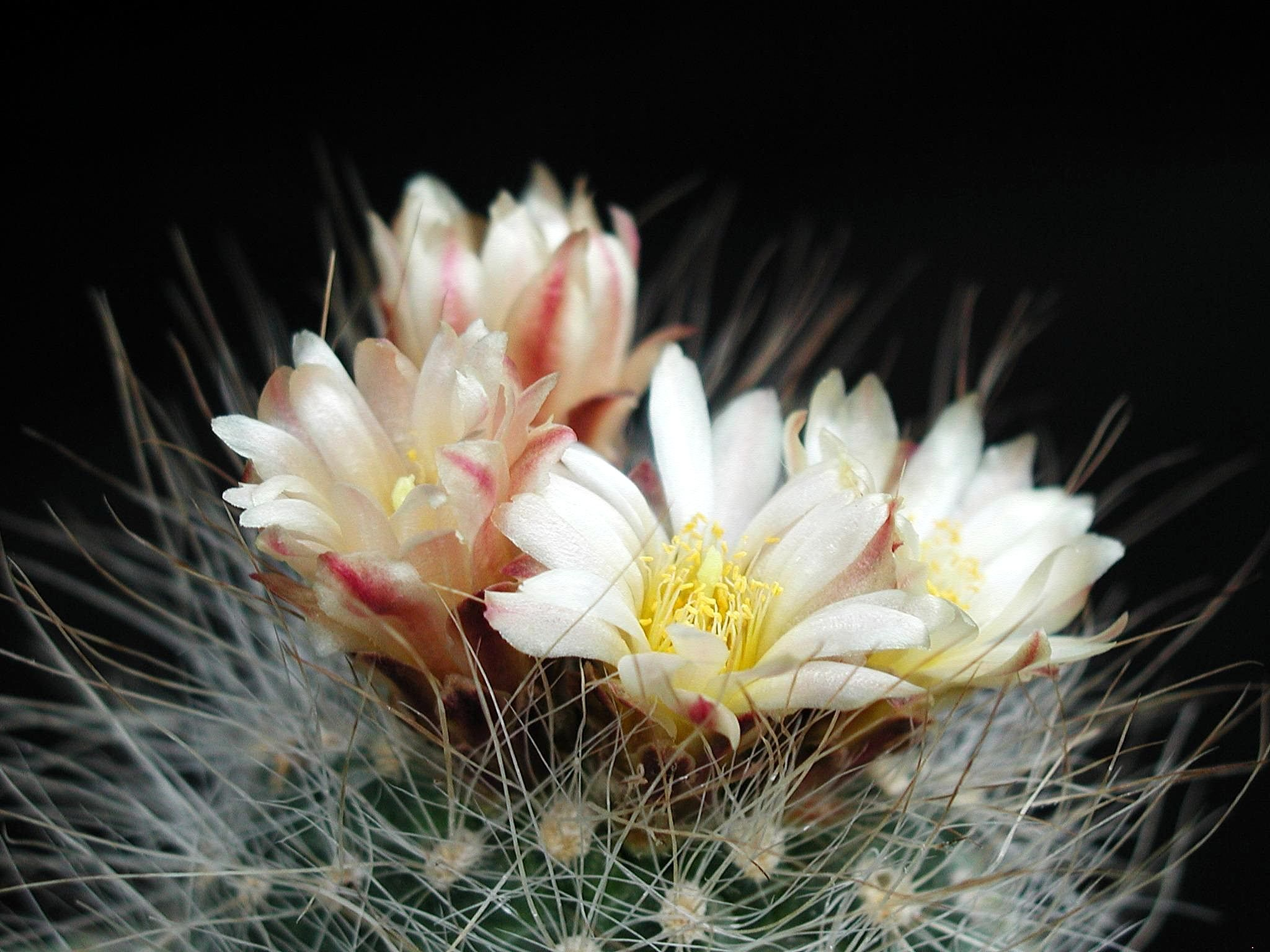 Image title: Barbed cactus with big thorns Image from Public domain images website